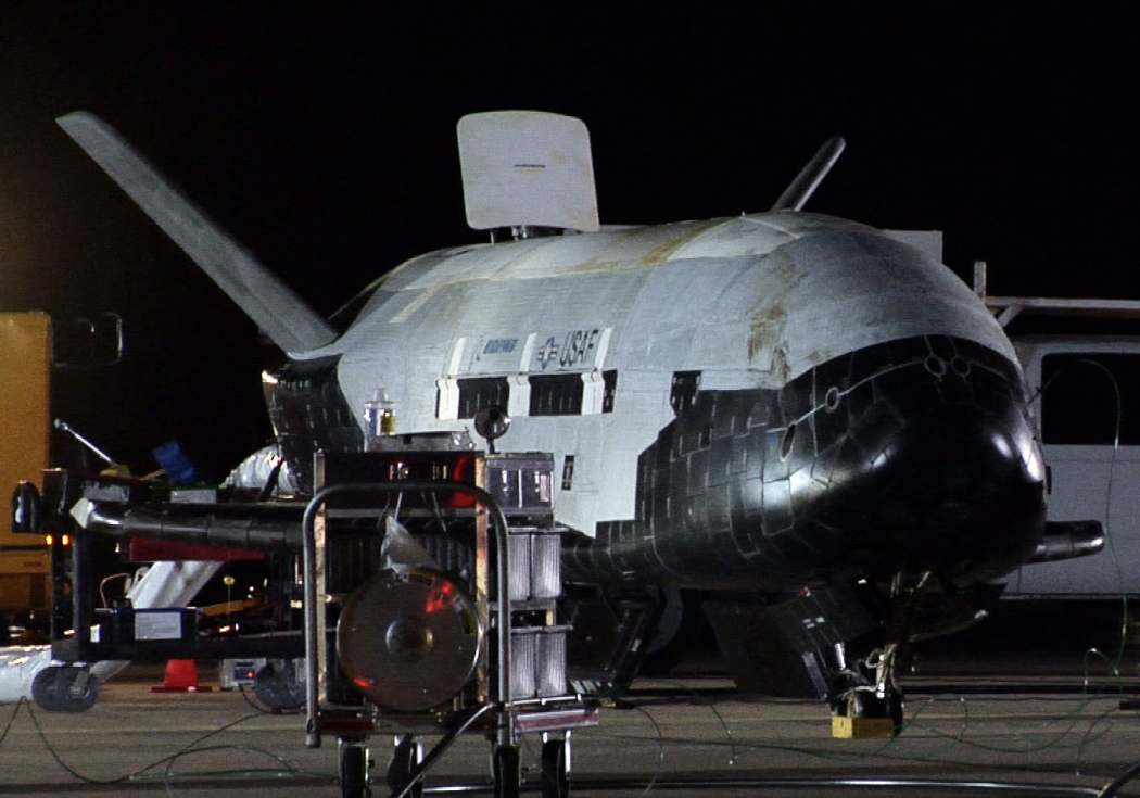 The X-37B sits on the Vandenberg Air Force Base runway during post-landing operations Dec. 3. The X-37B's de-orbit and landing mark the transition from the on-orbit demonstration phase to a refurbishment phase for the program.